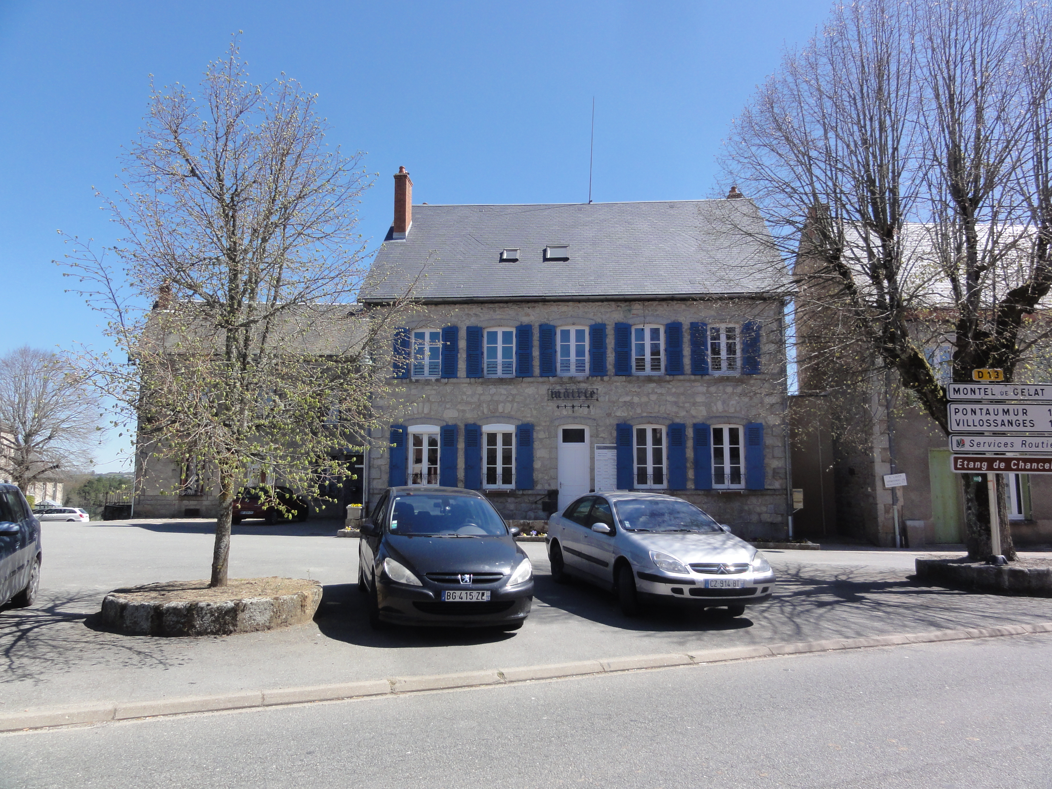 Charensat (Puy-de-Dôme) mairie